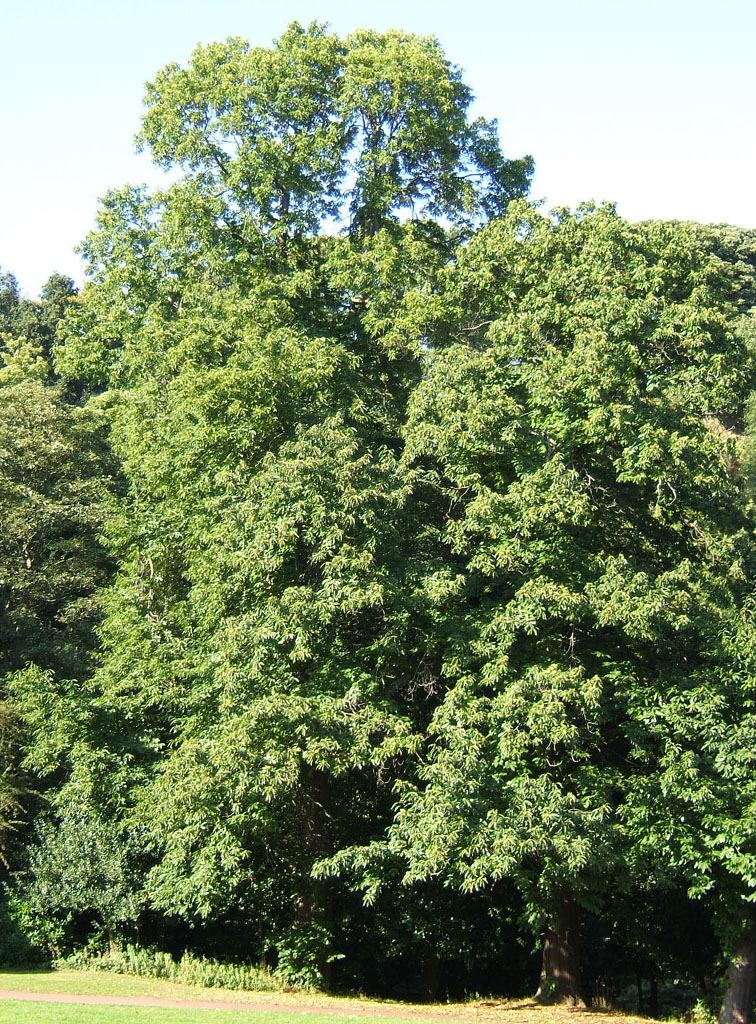 Castanea sativa tree, 28m tall, cultivated, UK. Photo MPF Close-up of Foliage, old male catkins & immature fruit of the same tree in File:Castanea sativa2.jpg